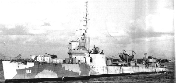 The U.S. Navy destroyer USS Du Pont (DD-152) on 21 August 1942. She had completed modifications for convoy escort duties: the after stack has been deleted and the other three lowered, and the armament altered. In addition to new 76mm guns and two torpedo mounts, the ship now had four 20mm antiaircraft guns, two depth-charge racks, and six Mk 6 depth-charge mortars. Du Pont appears to be painted in Camouflage Measure 15.